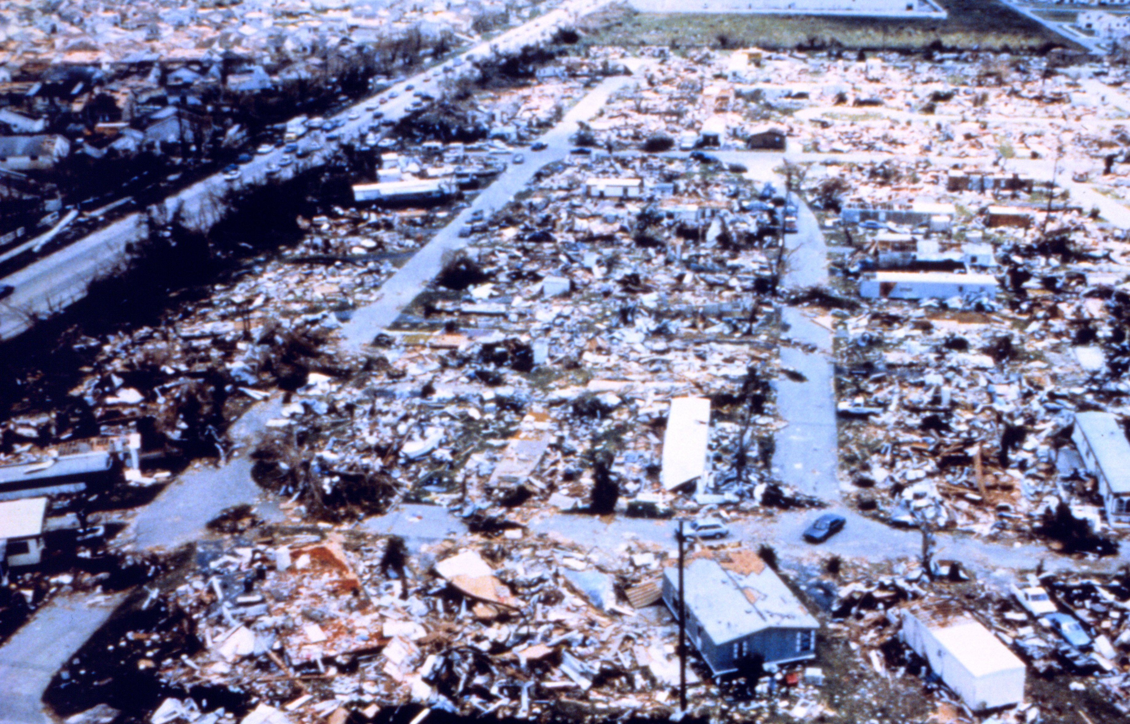 Hurricane Andrew - Dadeland Mobile Home Park after passage of Andrew Needless to say, mobile homes are not safe in strong wind events.